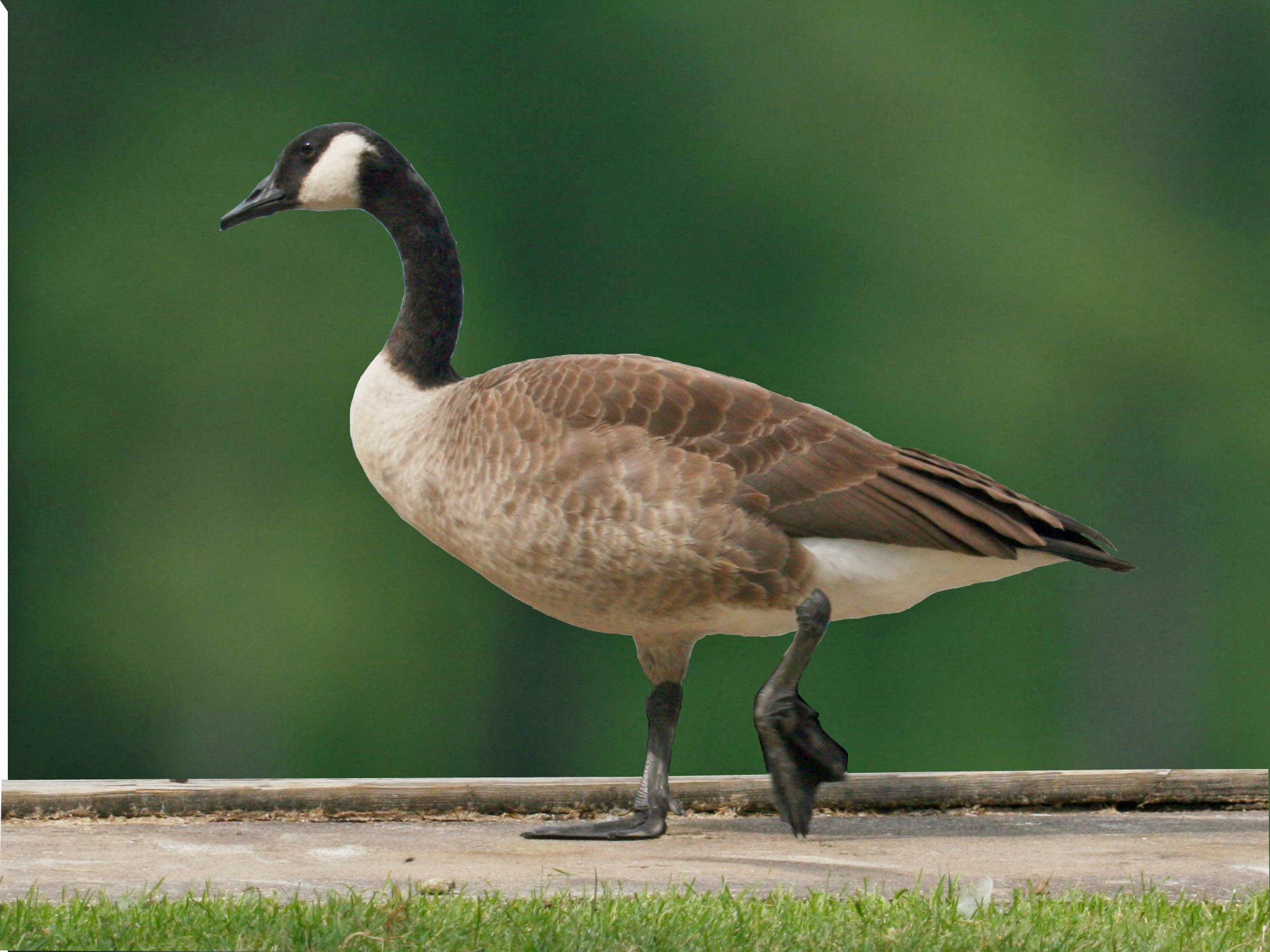 Canada Goose (Branta canadensis) in New York